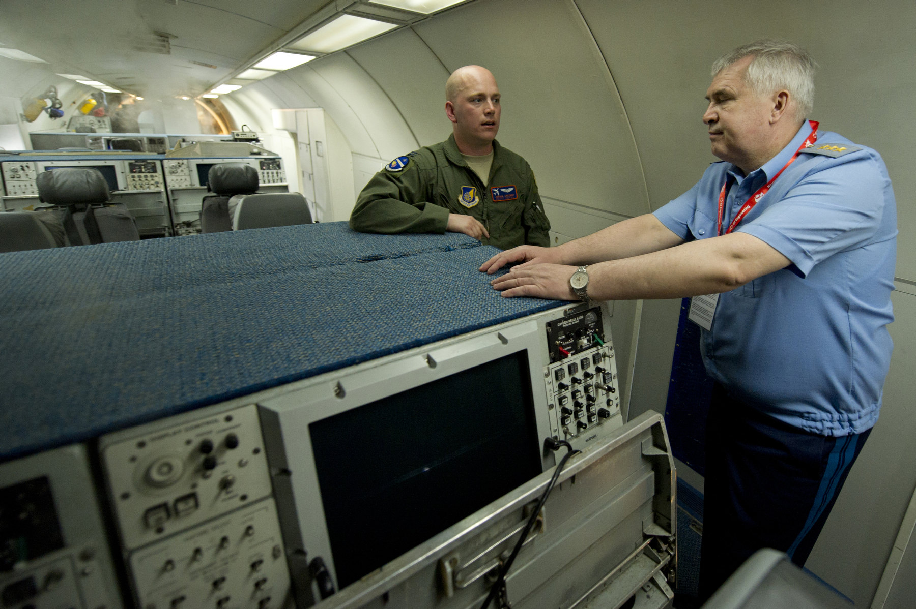 U.S. Air Force Capt. Joshua Craymer, an E-3 Sentry aircraft commander pilot, gives a tour of the Sentry to Commander-in-Chief of the Russian Air Force Col. Gen. Alexander Zelin at the 2012 Singapore Airshow on Feb. 15, 2012, in Changi, Singapore. Since the end of the Cold War, Zelin has also had the opportunity to visit the U.S. and fly in an F-16 Fighting Falcon and F-15E Strike Eagle.